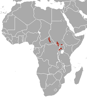 Bunyoro Rabbit (Poelagus marjorita) range